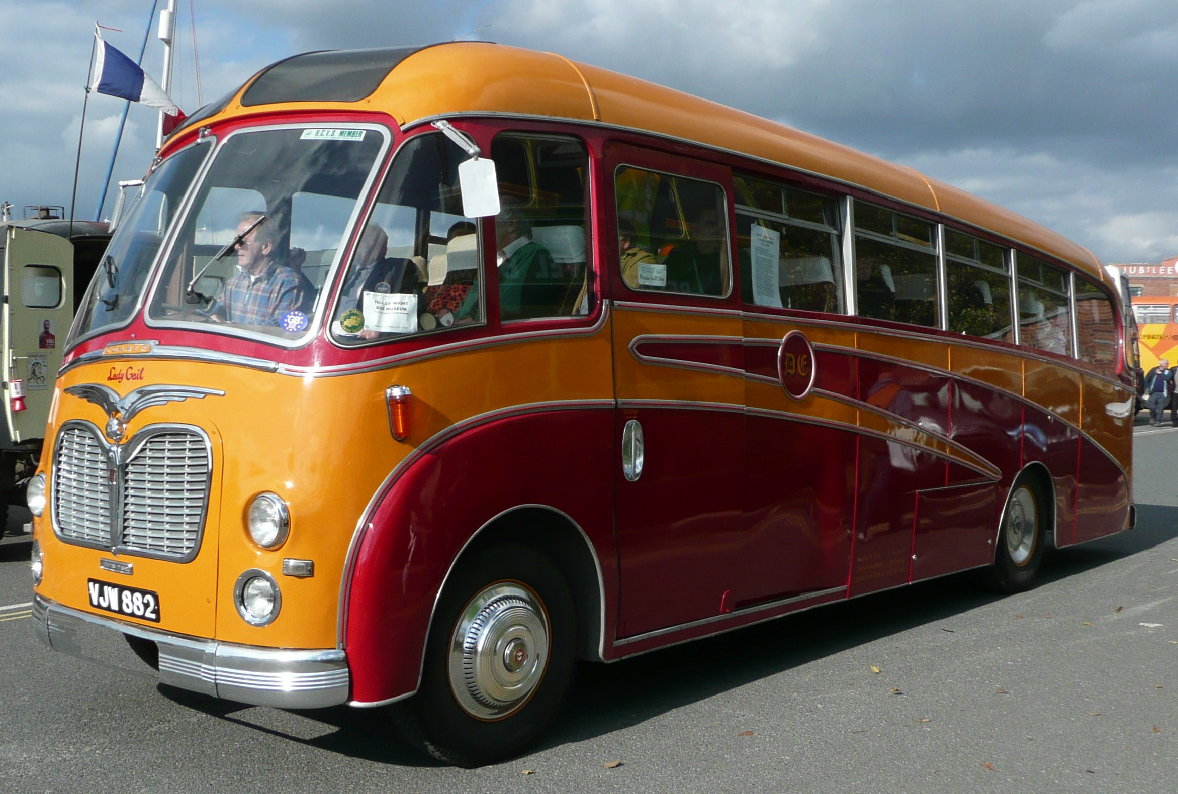 Now preserved Don Everall Tours VJW 882, a Commer TS3-engined coach at the Isle of Wight bus museum's 2008 running day, at Newport Quay, Newport, Isle of Wight.